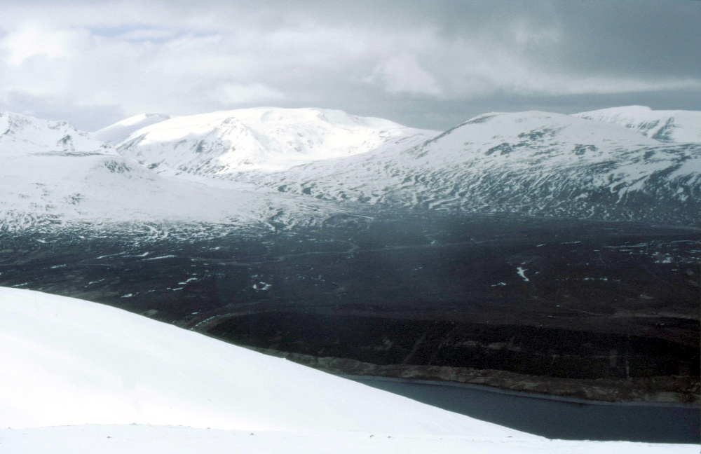 View from top of Beinn Udlamain The foothills of Ben Alder on the left, then the Bealach Dubh, Lancet Edge and Carn Dearg.